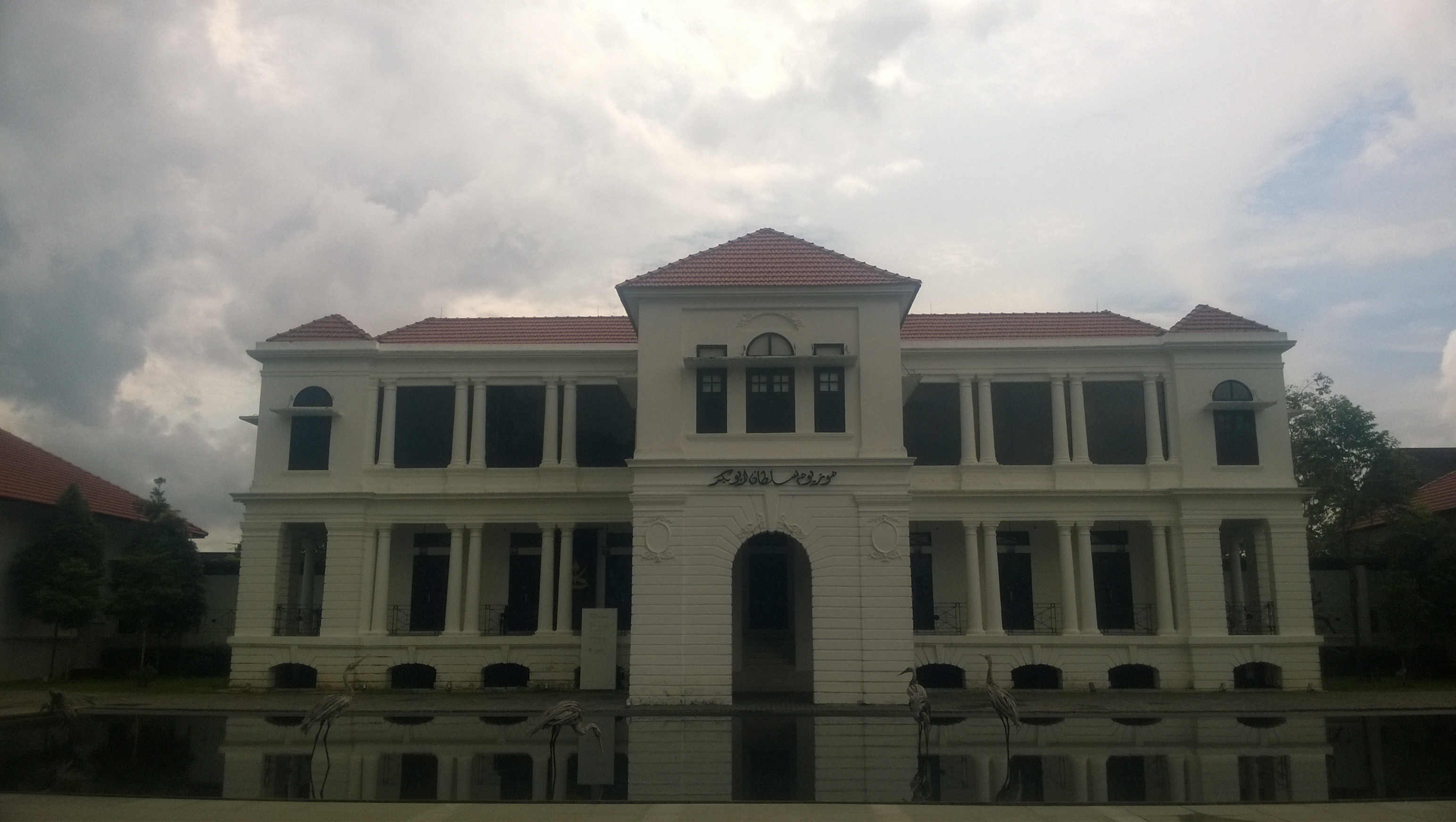 The main building of Sultan Abu Bakar Museum, Pekan, Pahang.